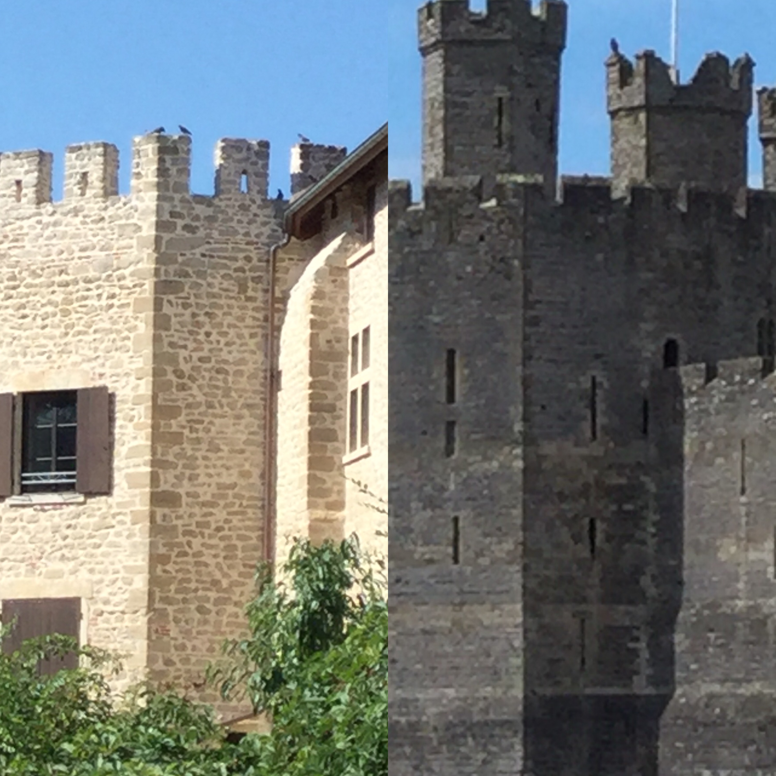 St-Georges Caernarfon comparison